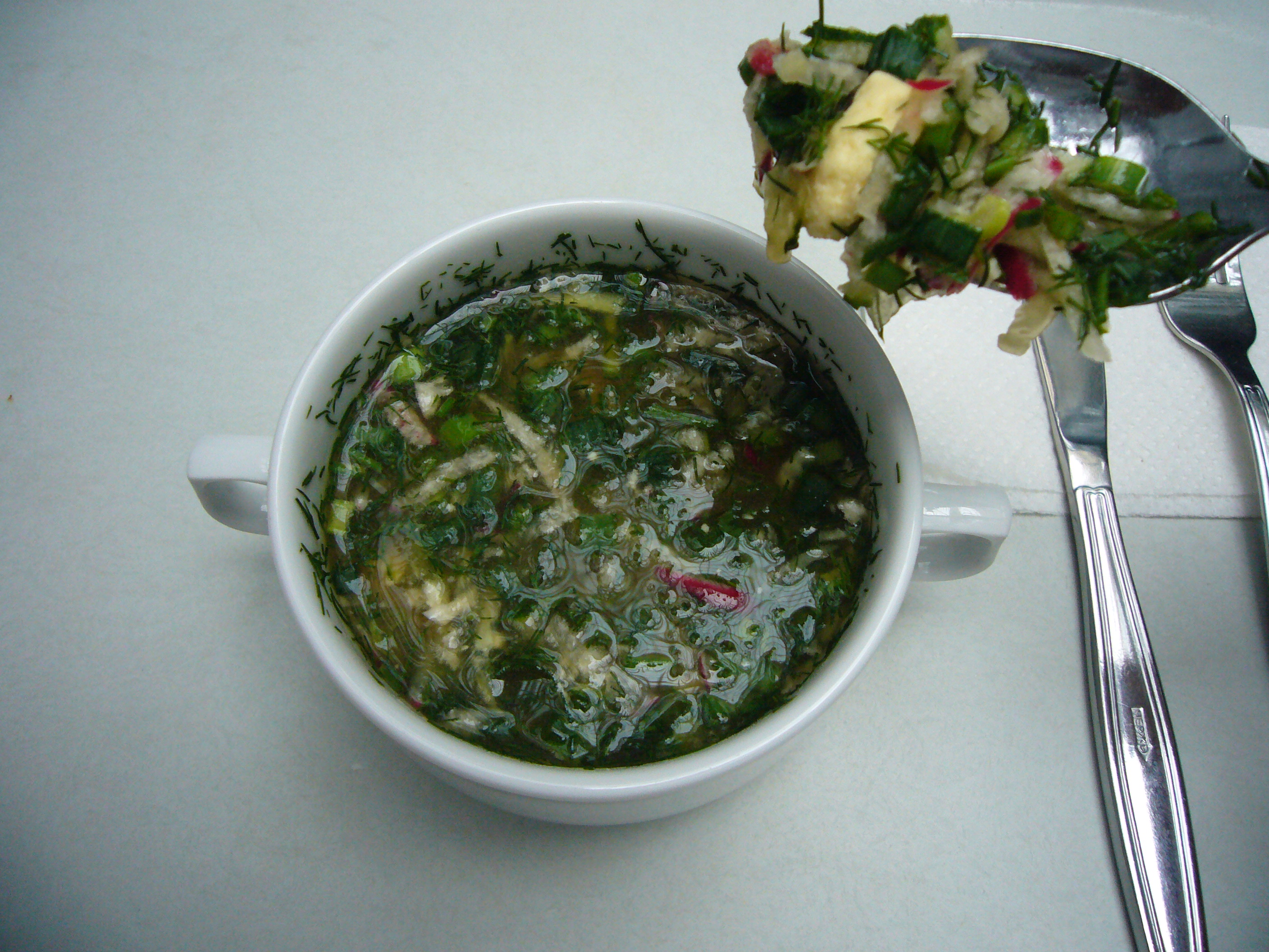 Okroshka cold soup, a favourite dish of Russian cuisine, made on the basis of the beverage kvass, Moscow, Russia